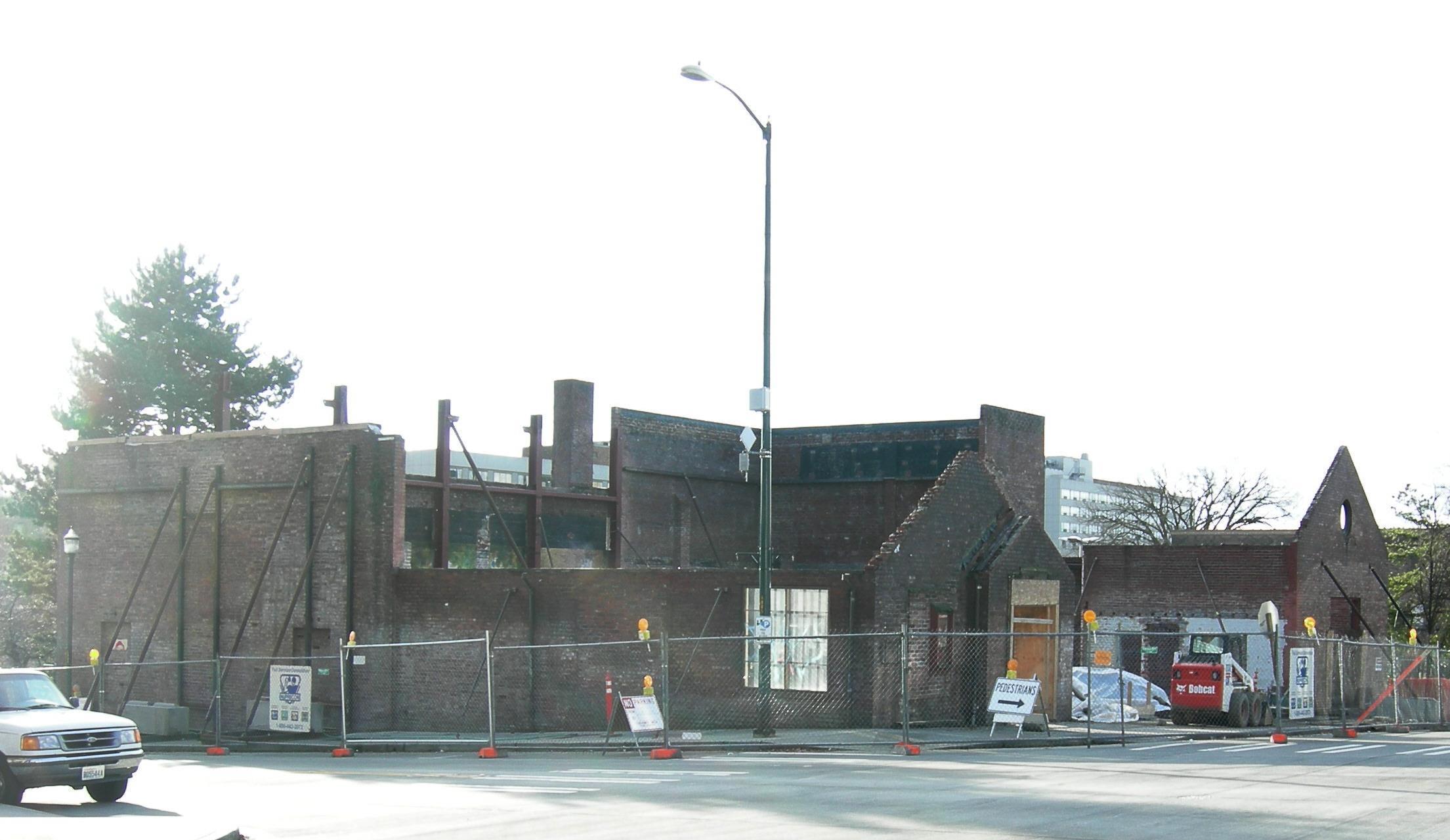 The University of Washington Playhouse, Seattle, Washington, USA, with its entire interior and several outer walls removed. I'm not sure what the plans are for the building.